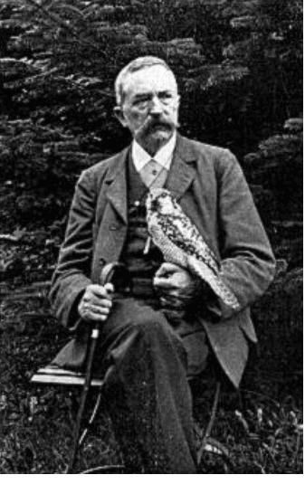 Friedrich Hermann Otto Finsch (8 August 1839 - 31 January 1917)